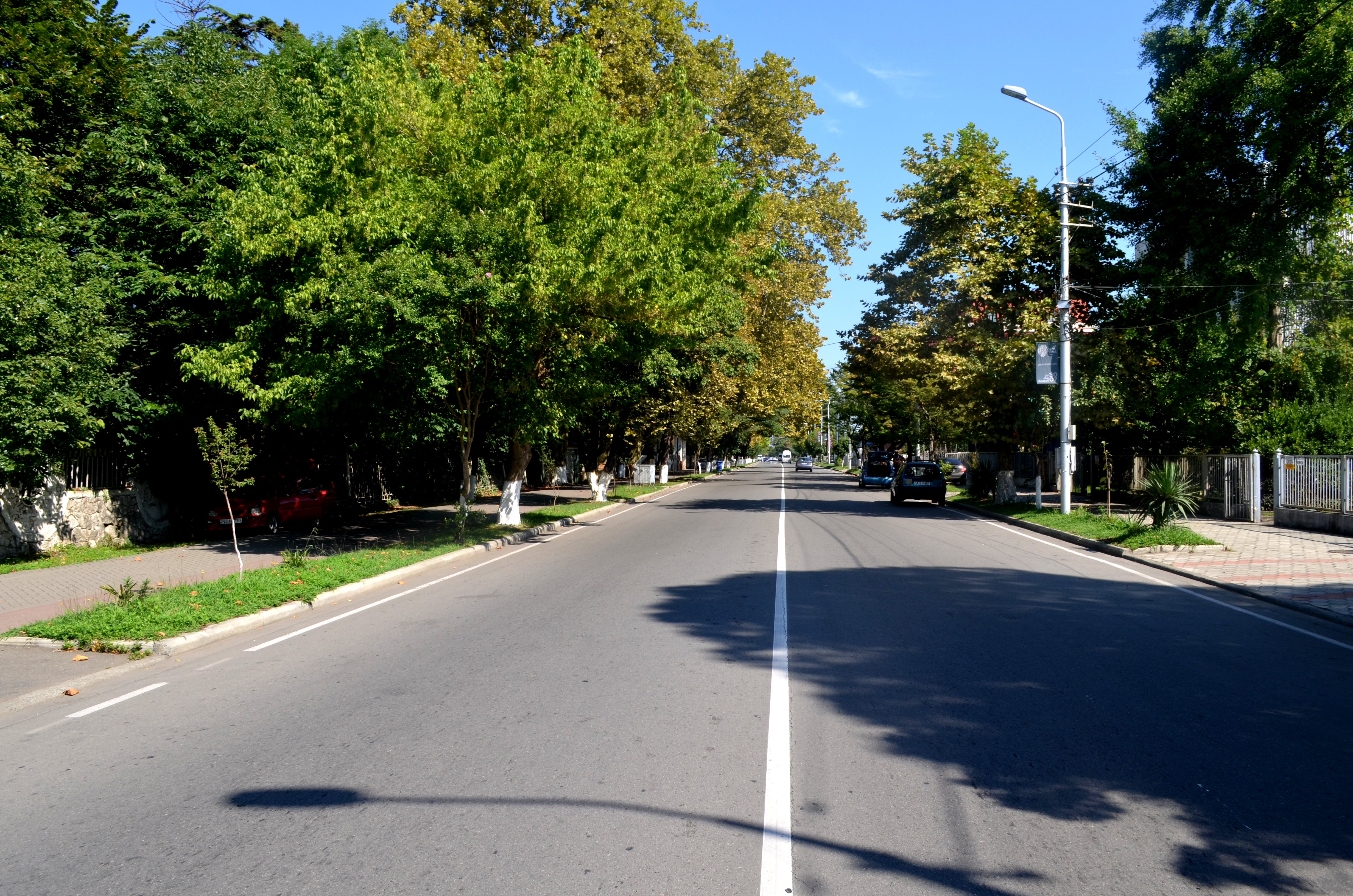 Street in Kobuleti, Adjara, Georgia